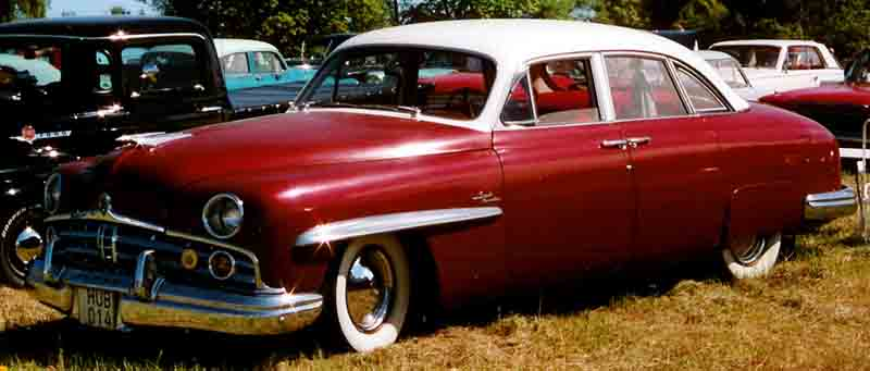 Lincoln Cosmopolitan 4-Door Sedan 1949